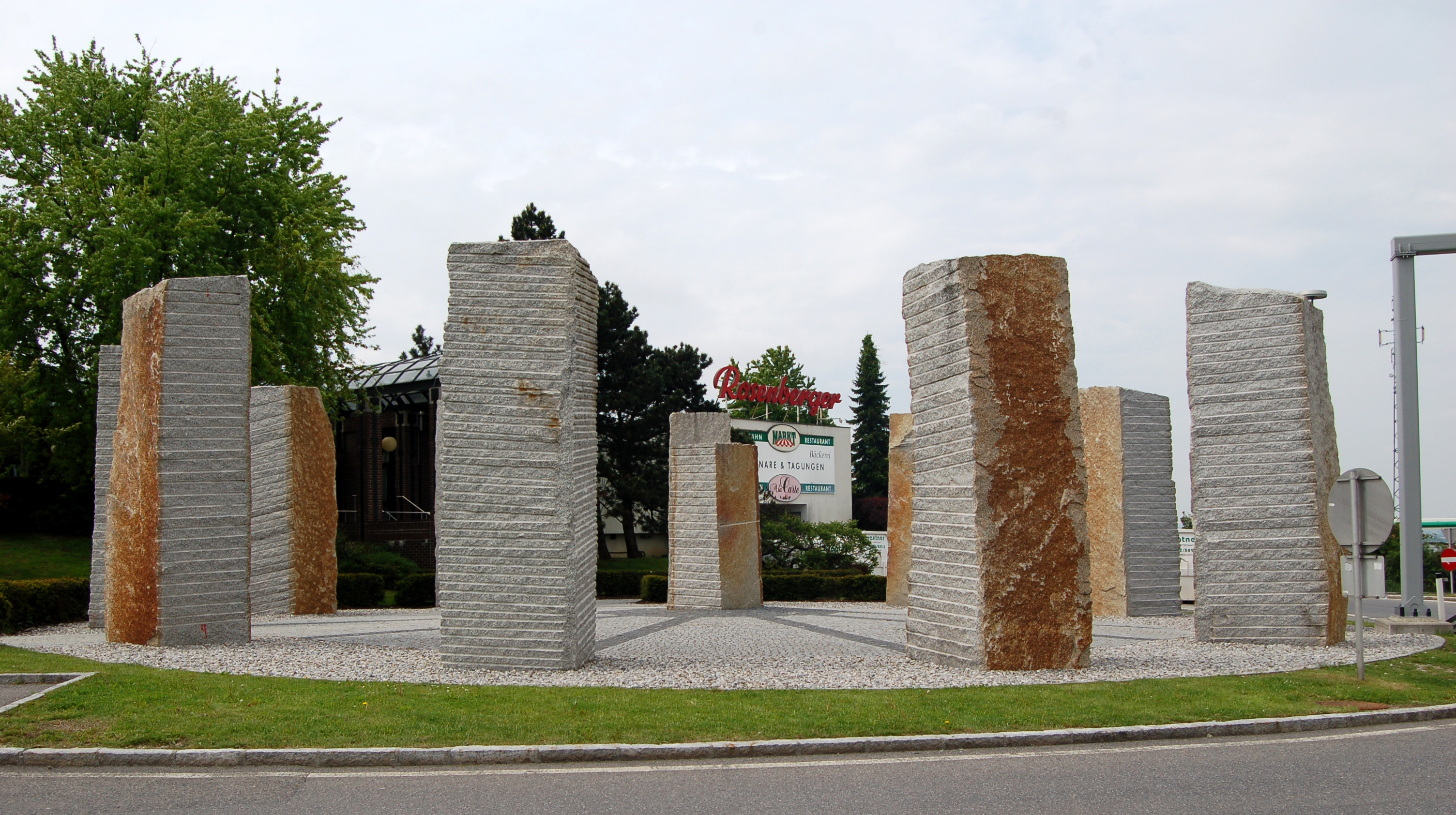 Monument for H. J. Rosenberger at the highway Westautobahn A1 in Austria near St. Pölten. H. J. Rosenberger built his first highway restaurant in 1972 here.